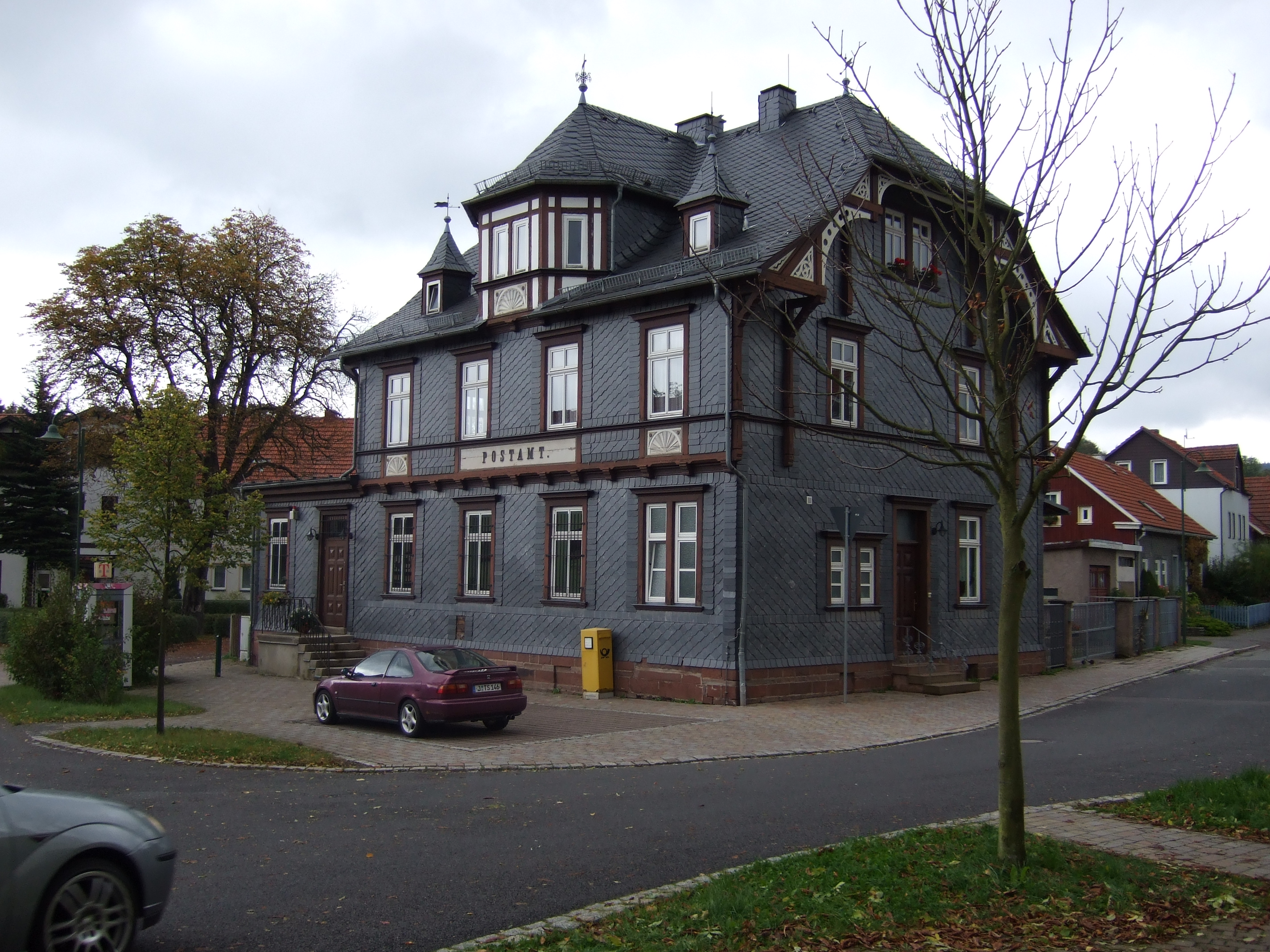 Old post office from 1888 in Tambach-Dietharz, Germany.